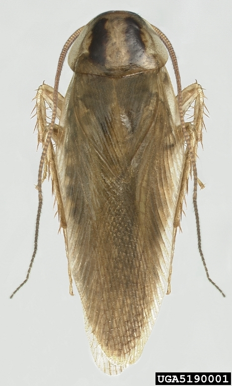 Adult Asian cockroach - Blattella asahinai